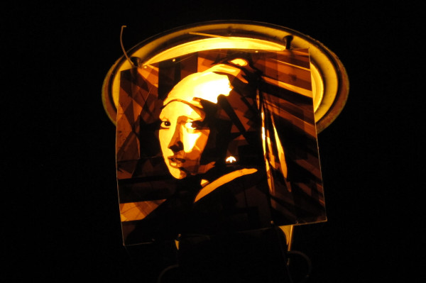 Max Zorn tape art is made from brown packing tape on acrylic glass, creating layers with a scalpel and hanging the finished work on outdoor street lamps worldwide.